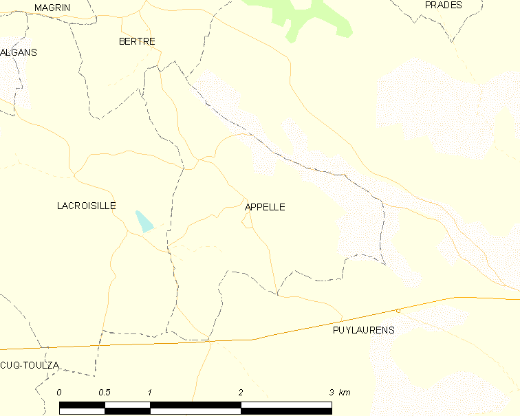 Map of French municipality Appelle